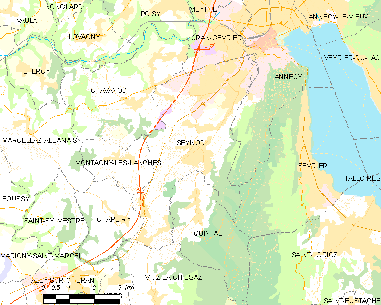 Map of French municipality Seynod